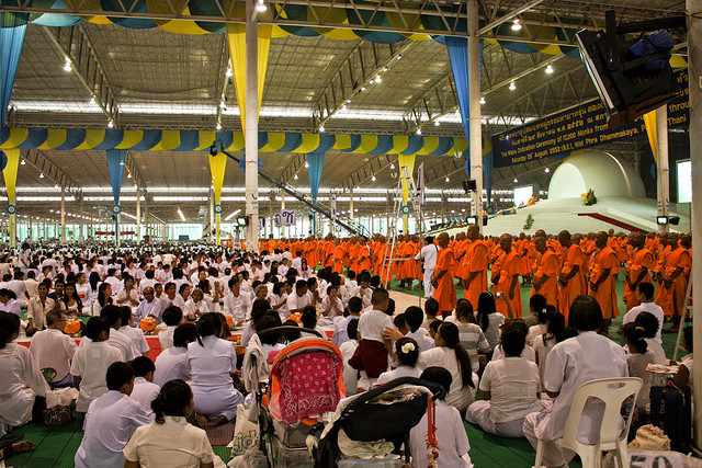 A ceremony held on the 29th of August 2009 for the ordination of 12,000 new monks at Wat Phra Dhammakaya emphasizes the scale of the temple.